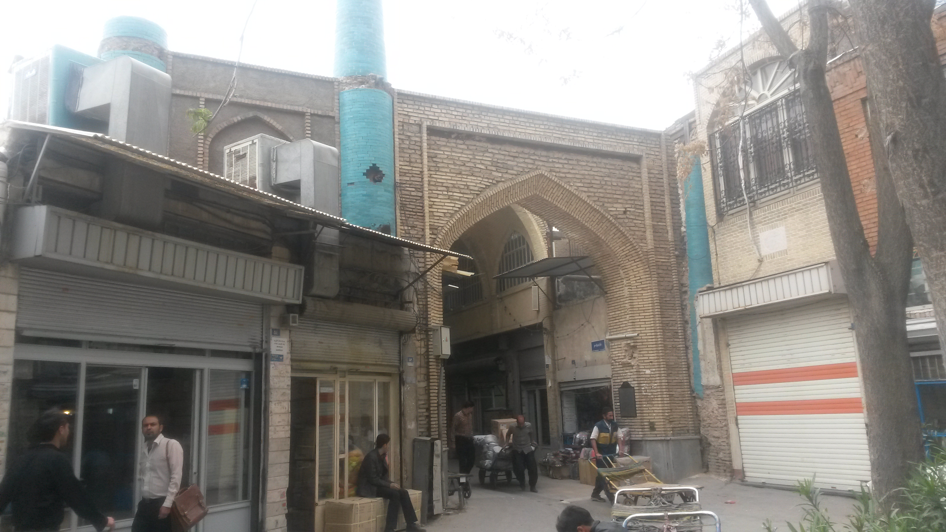 Mohammadie gate